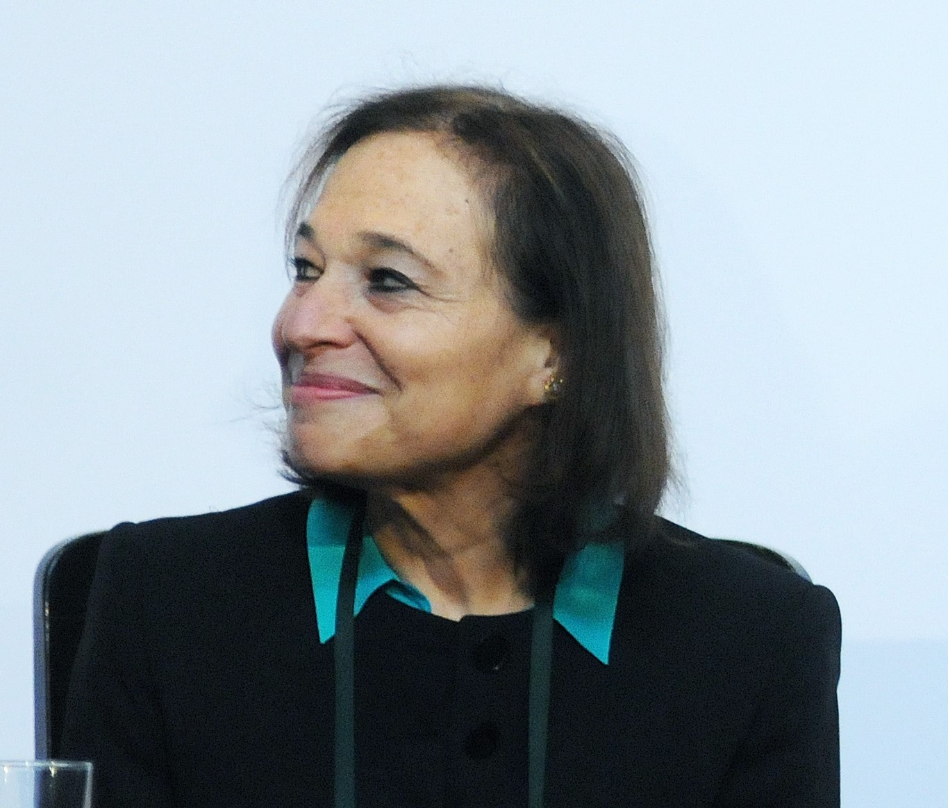 Susan Louise Segal who is CEO of the American Society/Council of the Americas. Crop of a picture